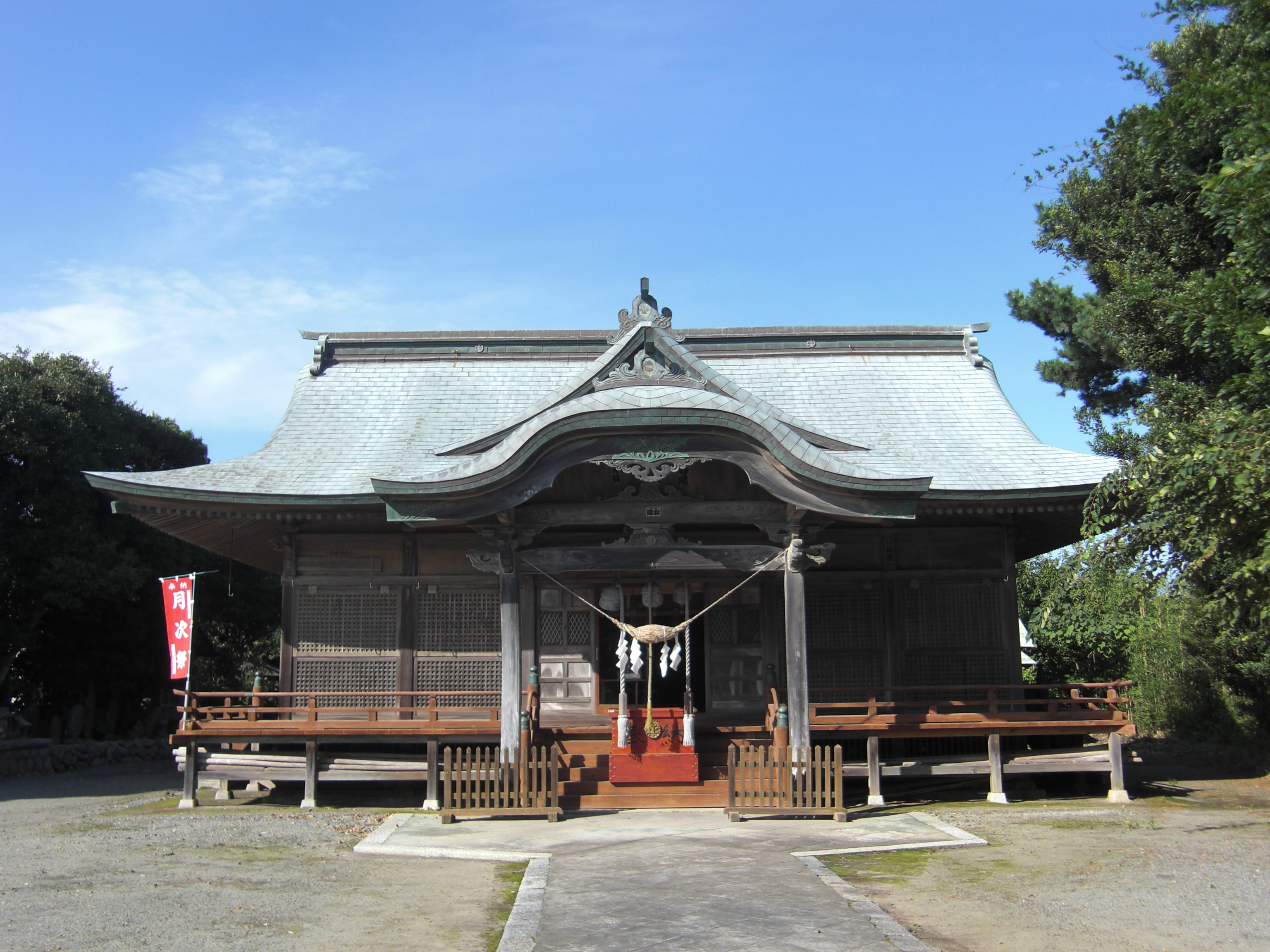 This is Kusano-jinja shrine at Ukedo,Namie-town.This shrine enshrined Takaokami and Kuraokami(God of water and known as Dragon god),Isotakeru,Ooyatsuhime and Tsumatsuhime(Susanowo's three children,God and Goddess of Tree). Unfortunately,This shrine was destroyed by massive earthquake and tsunami waves on 11 March 2011.However,Thanks to many people's support,new shrine was built on same place before.